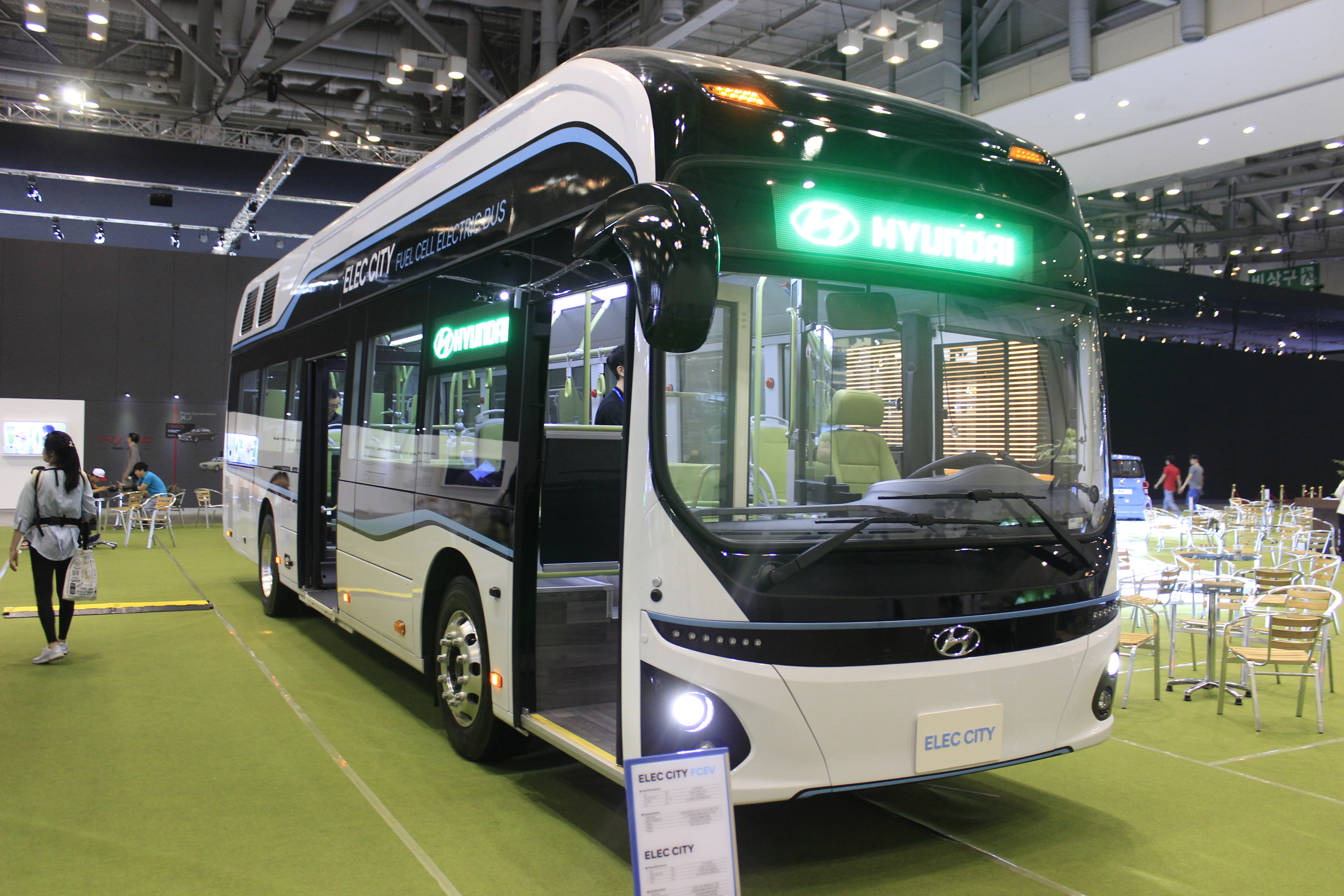 Hyundai Elec-city in Busan Motor Show